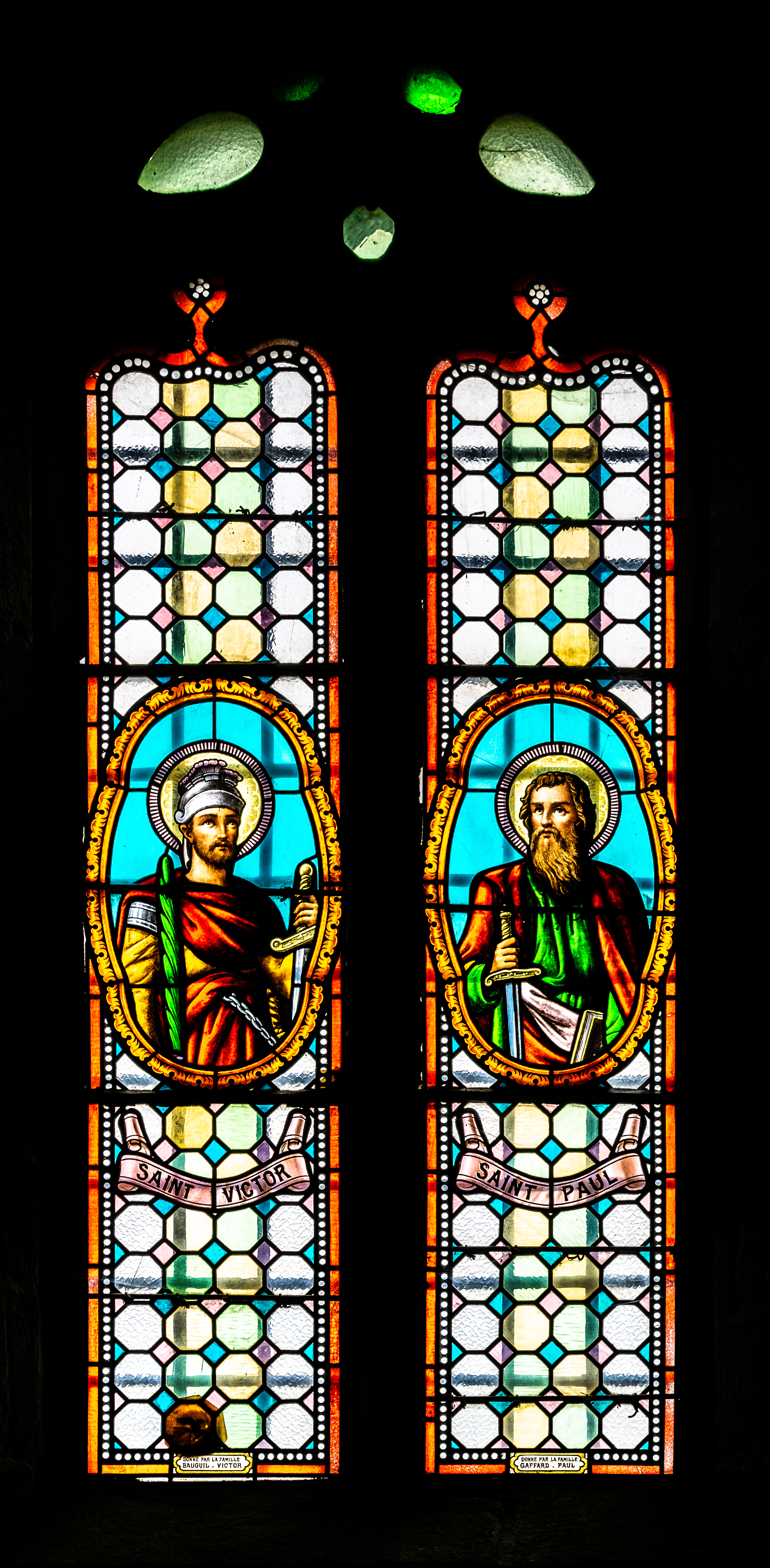 Stained-glass window of the Mary Magdalene church in Gramond, Aveyron, France